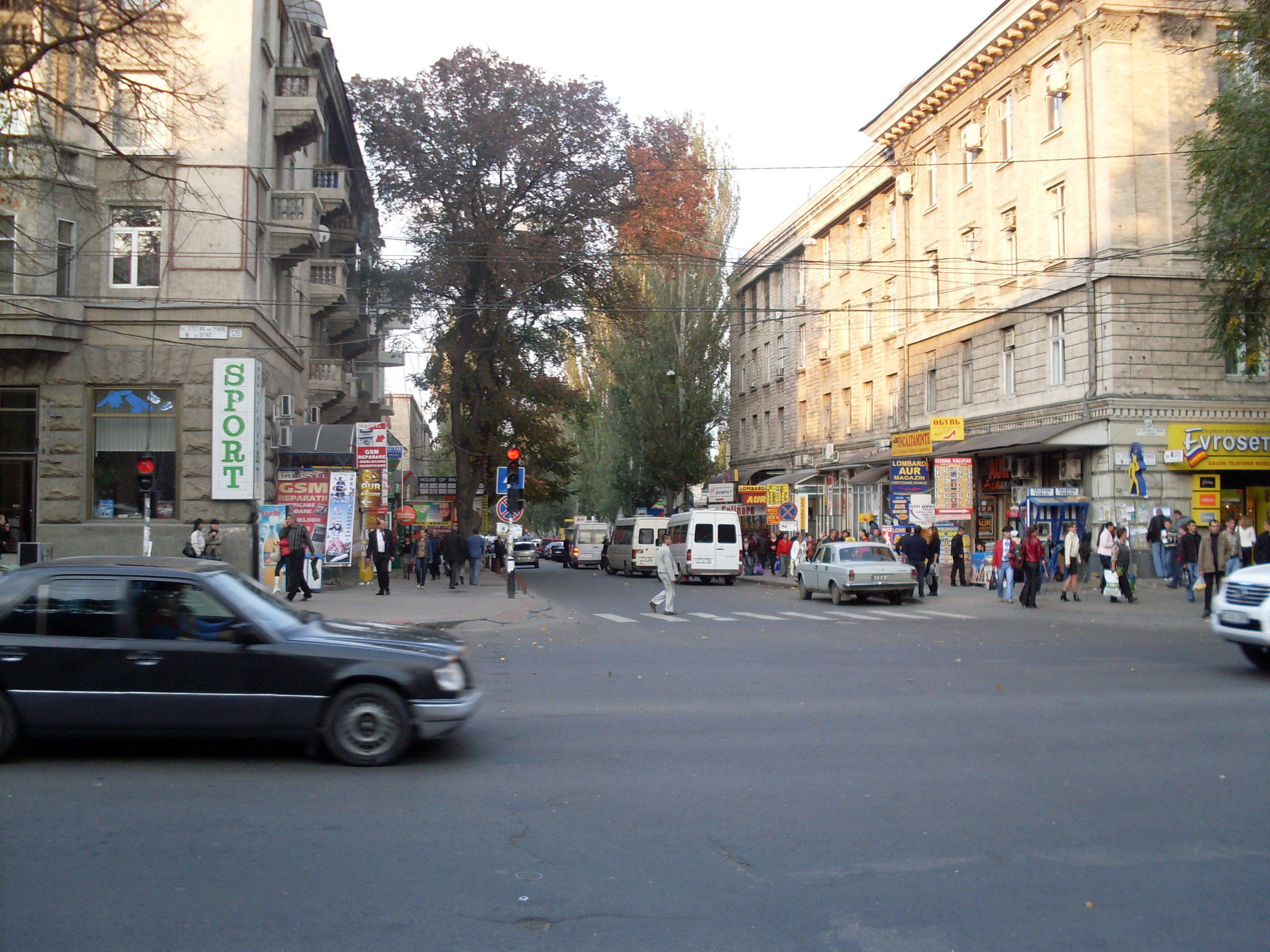 The Armenian street of Chisinau, seen from the Stephen the Great avenue.